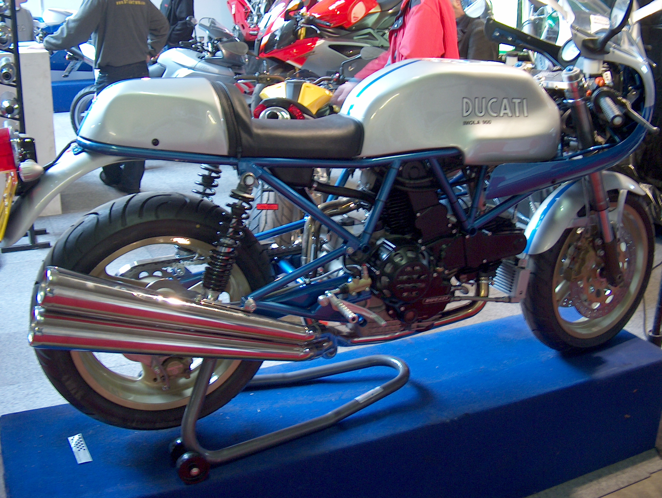 Ducati 900 SS Project Imola, by Baines Racing